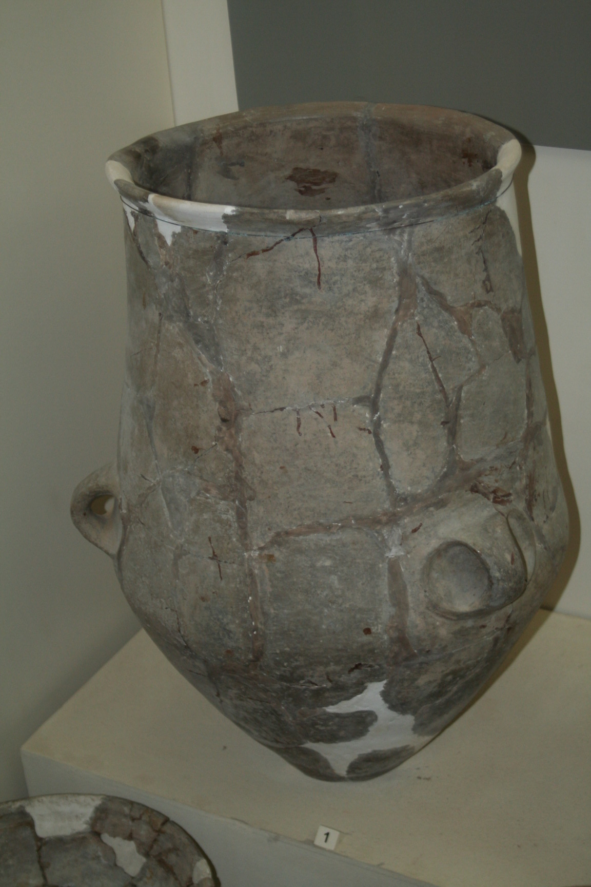 Clay jug from Tepeyatagi (Khudat)